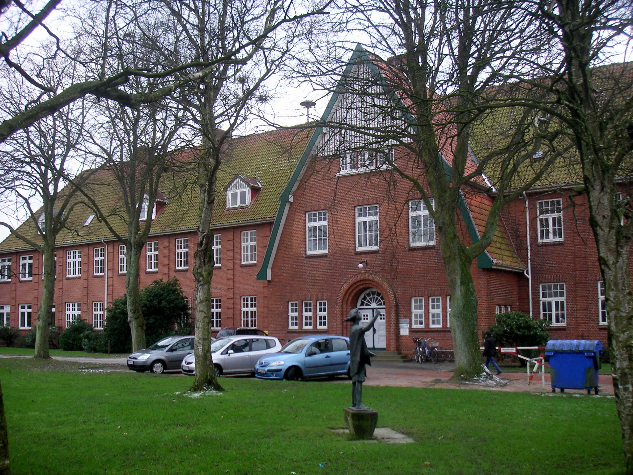 Cuxhaven Groden Gemeindeschule